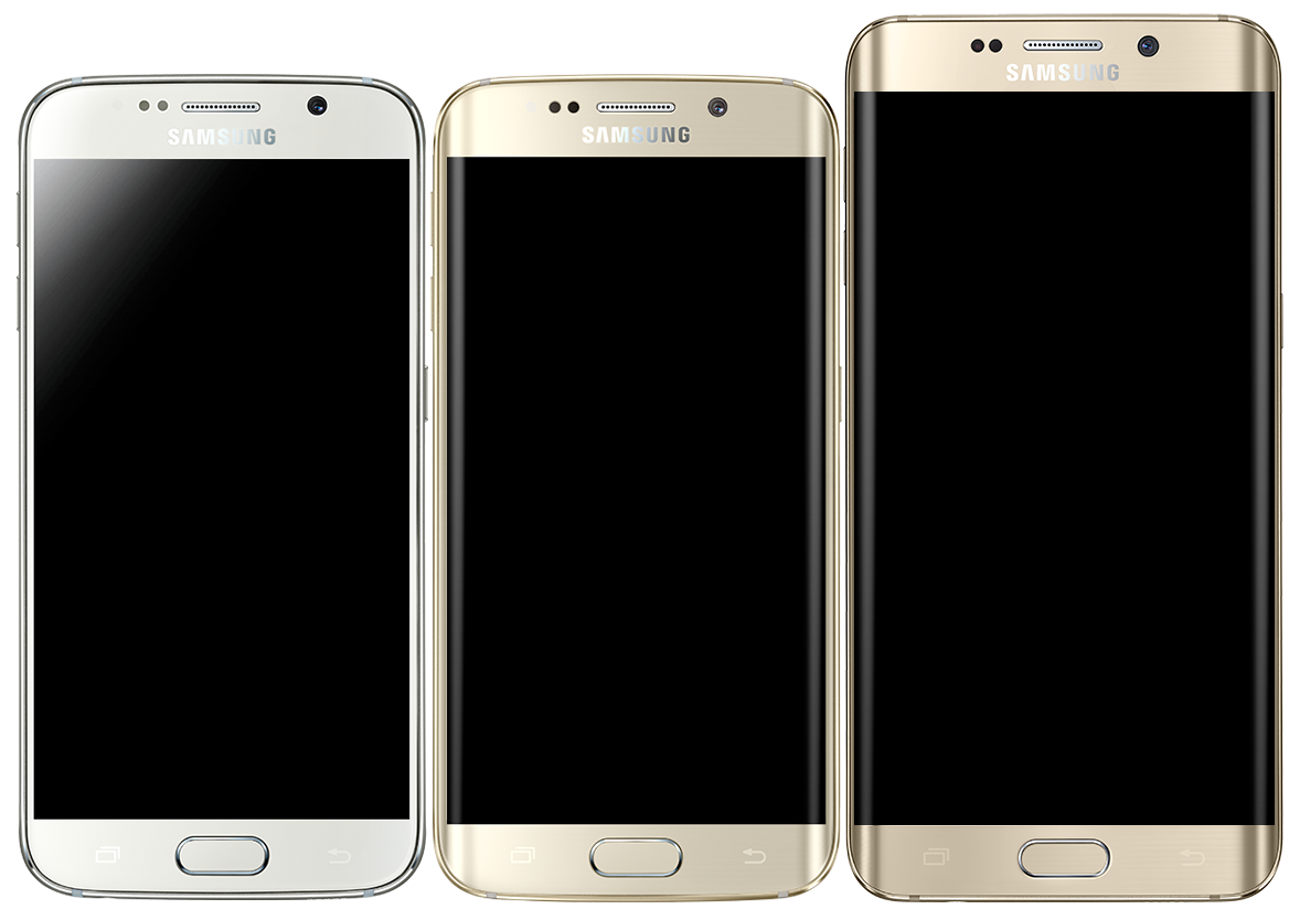 Samsung Galaxy S6, S6 Edge and S6 Edge+ render